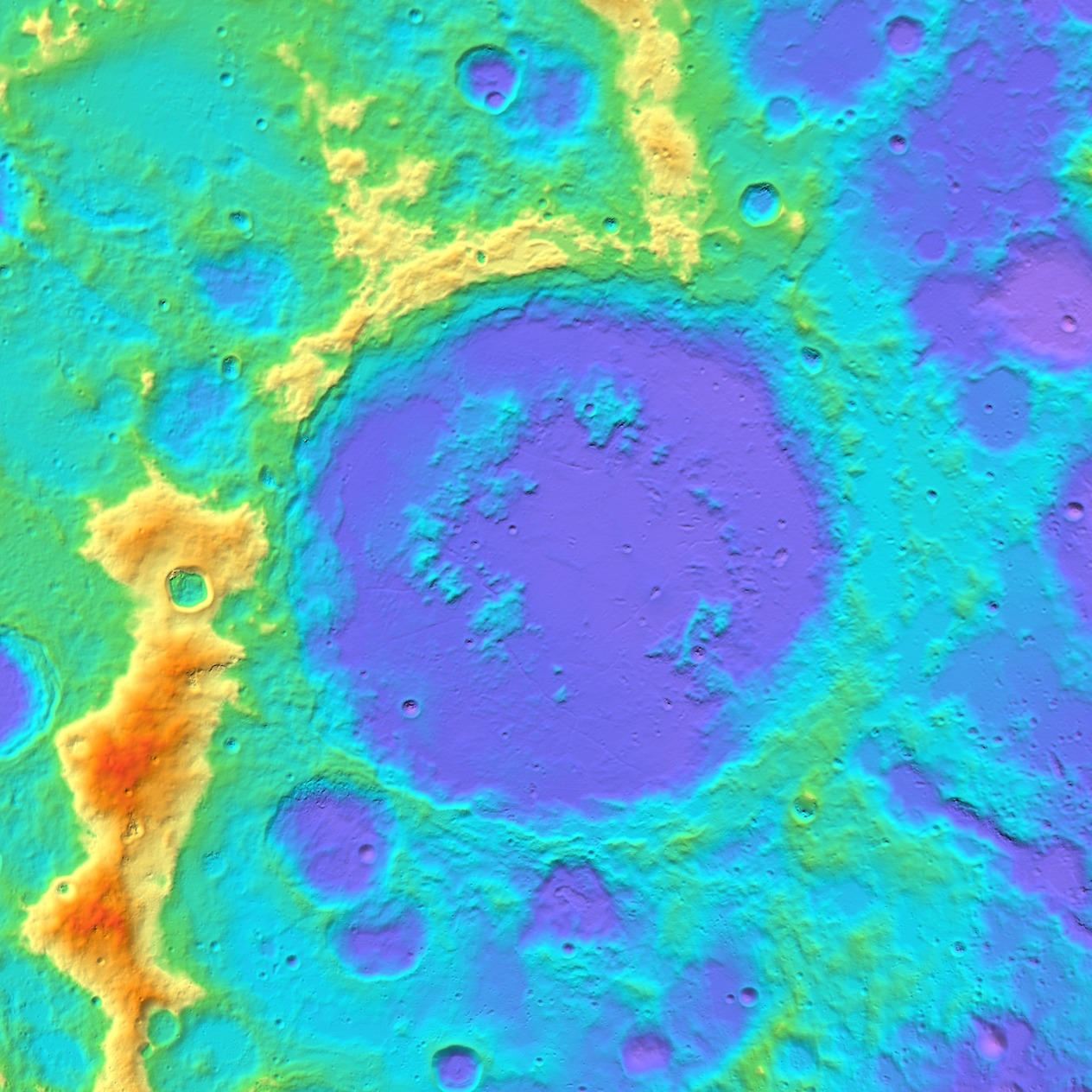 Crater Schrödinger on the Moon, in southern part of the far side. Topographic map (color shaded relief), based on Global Lunar DTM 100 m topographic model (GLD100), which is based on data acquired by Lunar Reconnaissance Orbiter. Size of the image is 600×600 km, north is up. The image has the same borders and resolution as a photomosaic Schrödinger (LRO).png.